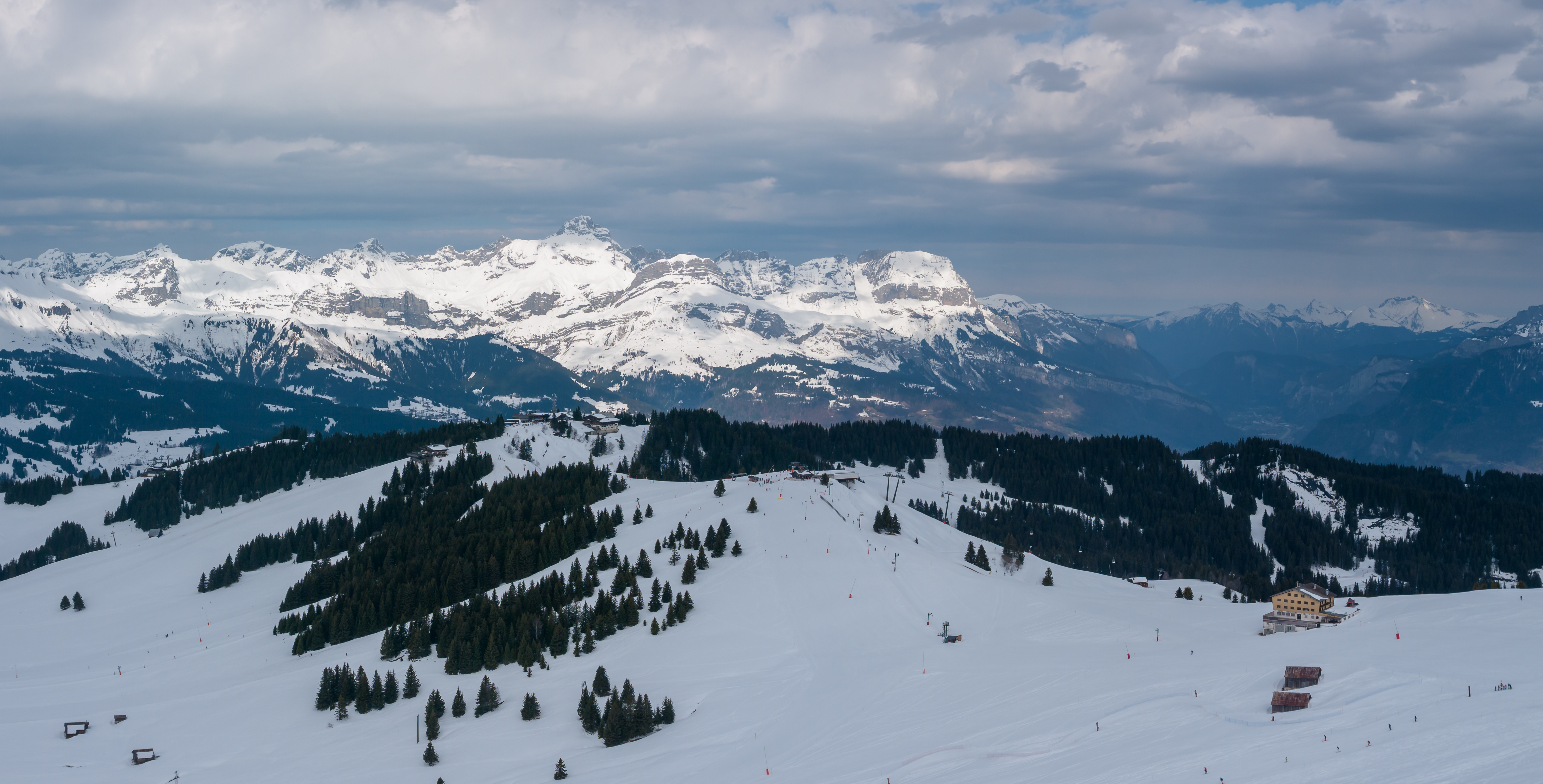 View of Mont d'Arbois in the Aravis range from above, Saint-Gervais-les-Bains, France